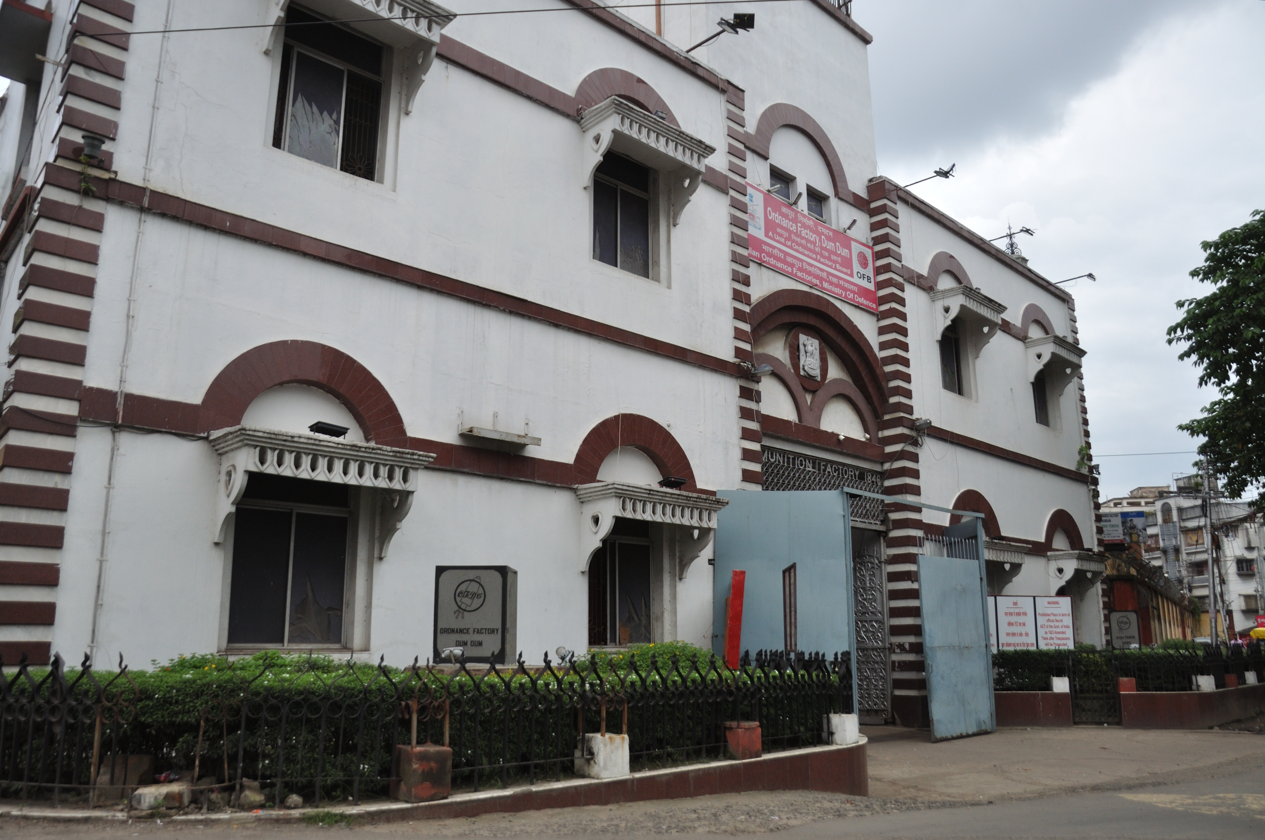 Photographed in Kolkata.